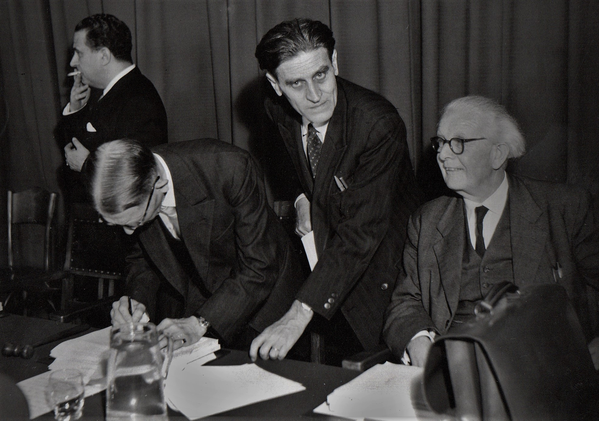 Pedro Rossello (center) and Jean Piaget (right)